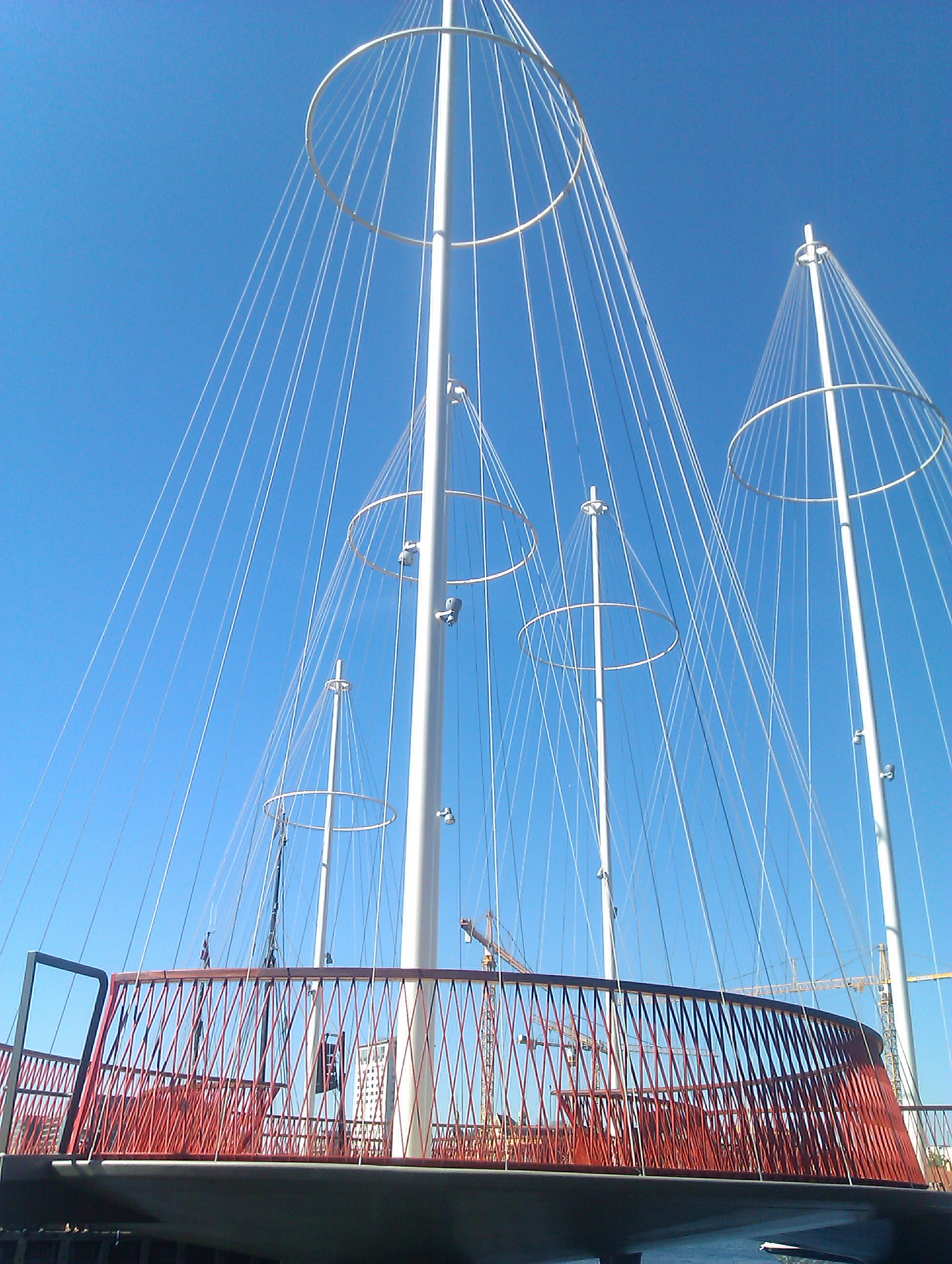 Cirkelbroen on inauguration dayDansk: Cirkelbroen på åbningsdagen